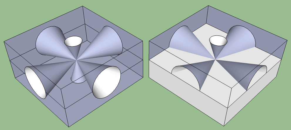 Example of light emission cones on a semiconductor chip, with a critical angle of 20 degrees. Left example is for a fully transparent semiconductor, right image shows the half-cones where the bottom is a fully opaque material. A real LED or solar cell may exhibit some internal absorption of light emission, so the longer, larger side cones may not emit as much light than the shorter, narrower top and bottom cones.